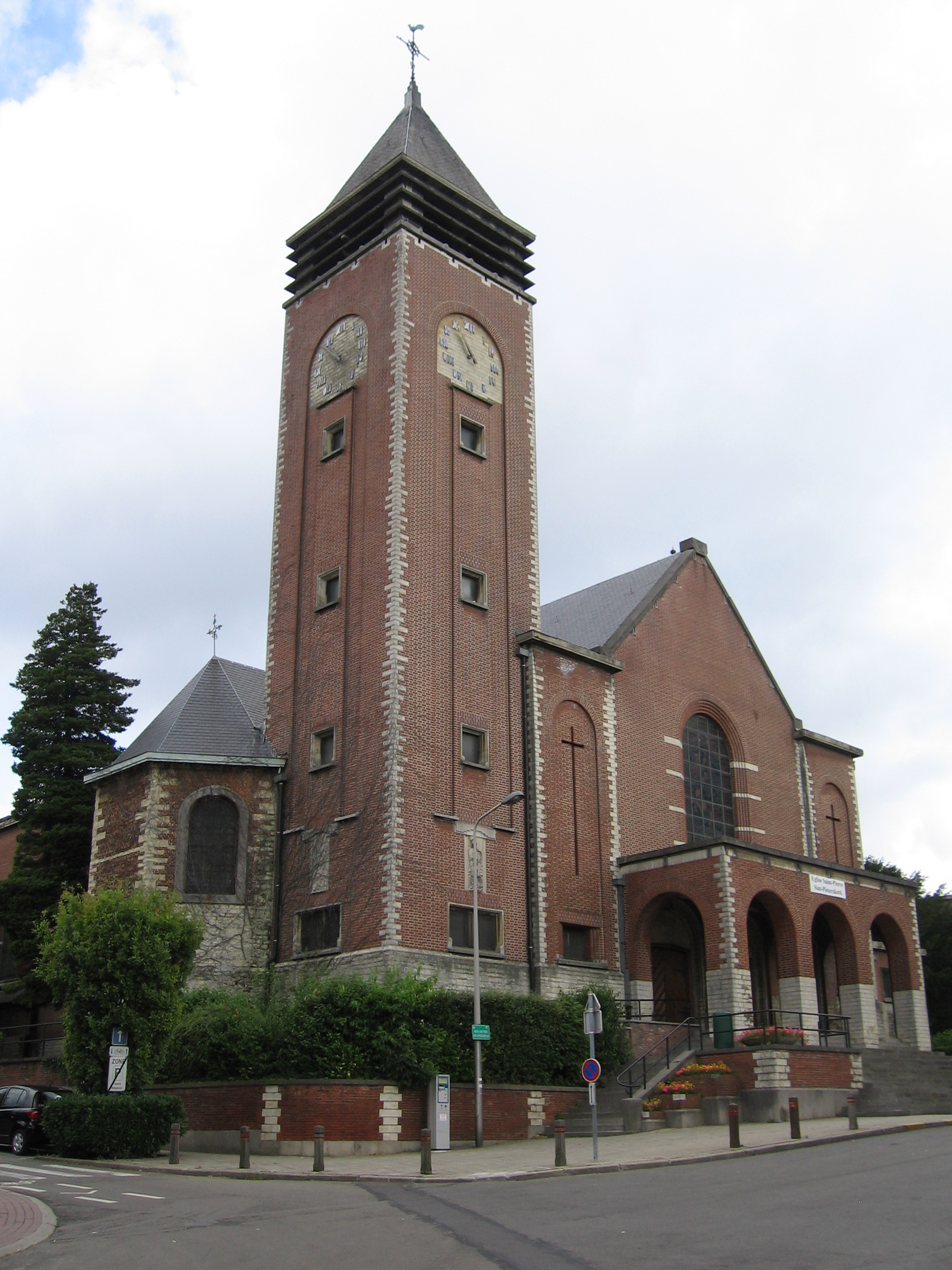 The Saint-Pierre church at Woluwe-Saint-Pierre (Brussels).